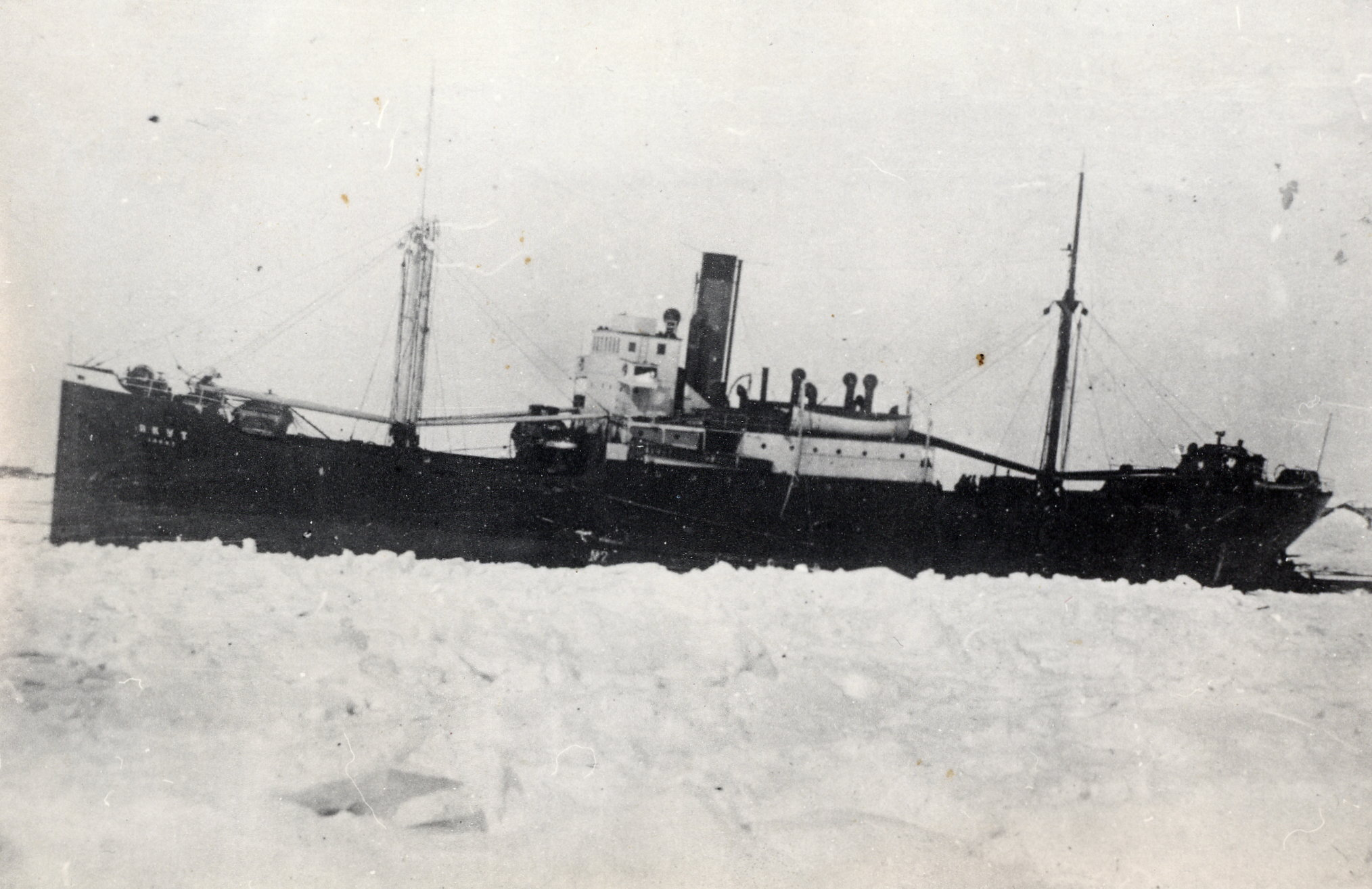 SS Yakut in ice. Kamchatka, March 1936. An image from family archive, owned by D.Kiselev